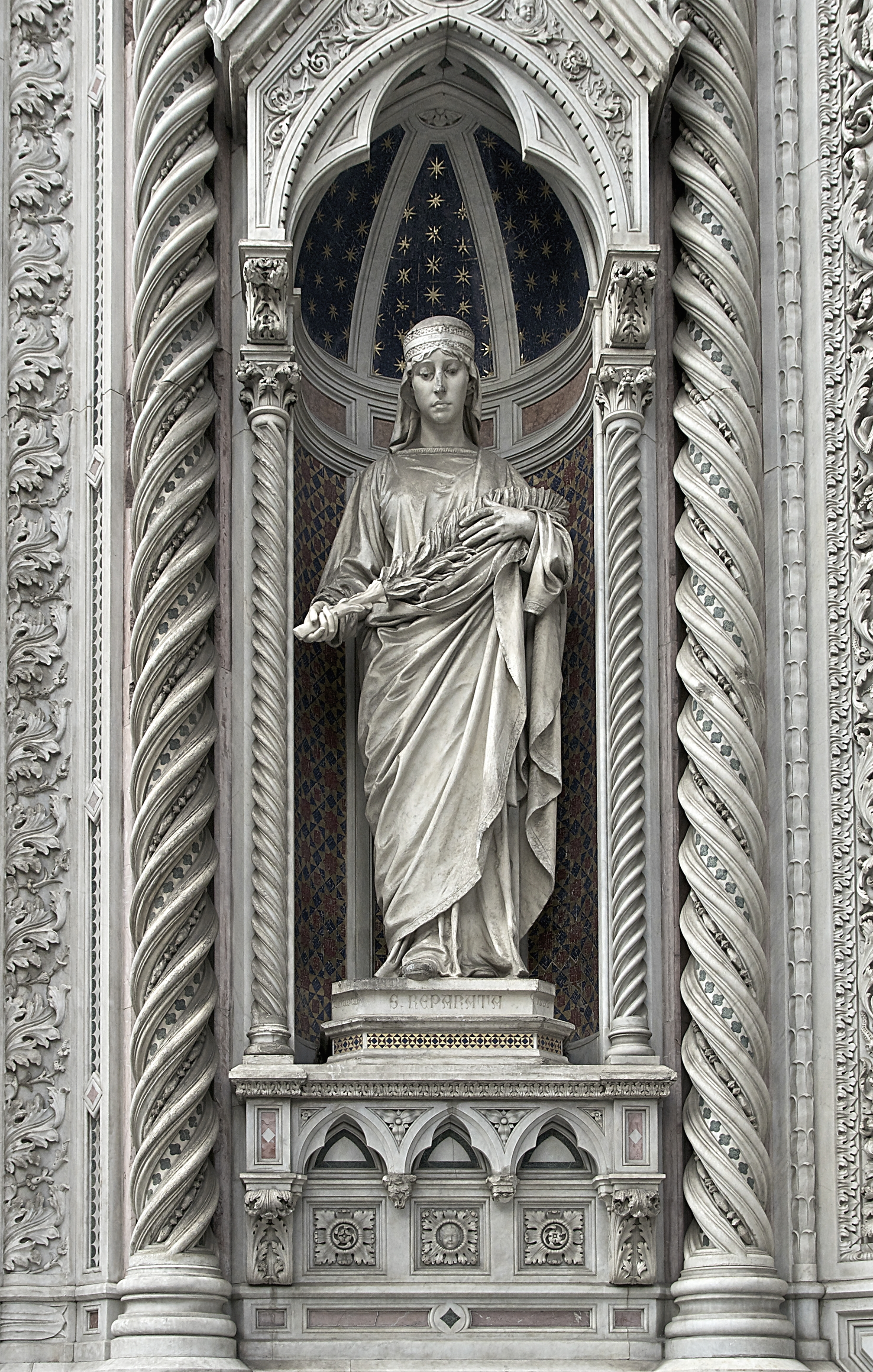 Statue of Saint Reparata, martyr, Patron of Florence, Italy. Main portal of the cathedral Santa Maria del Fiore.